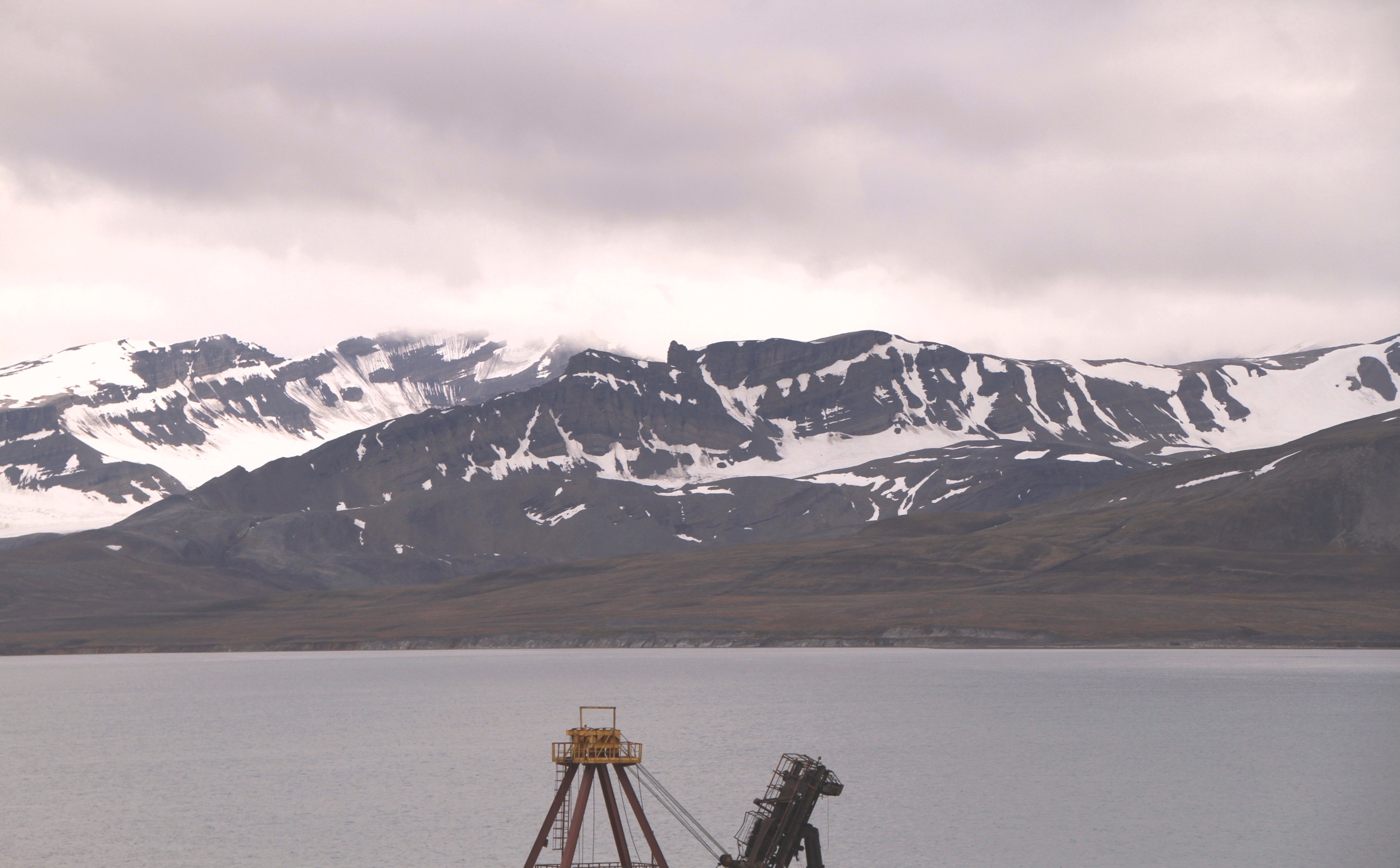 Image from the Green Harbour (Grønfjorden) in western Spitsbergen - seen from the settlement of Barentsburg in the east towards west. The image shows the mountainous areas on the western side of the fjord.